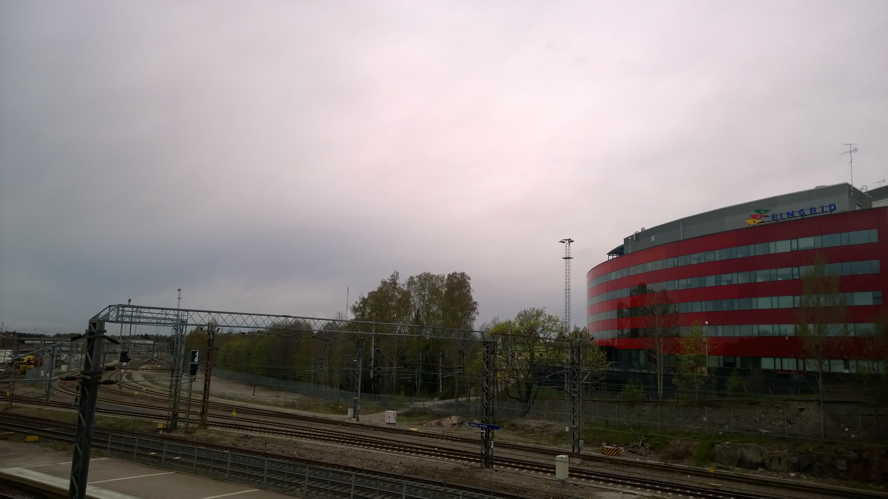 Fingrid headquarters (right), Läkkisepäntie 21, Helsinki, Finland